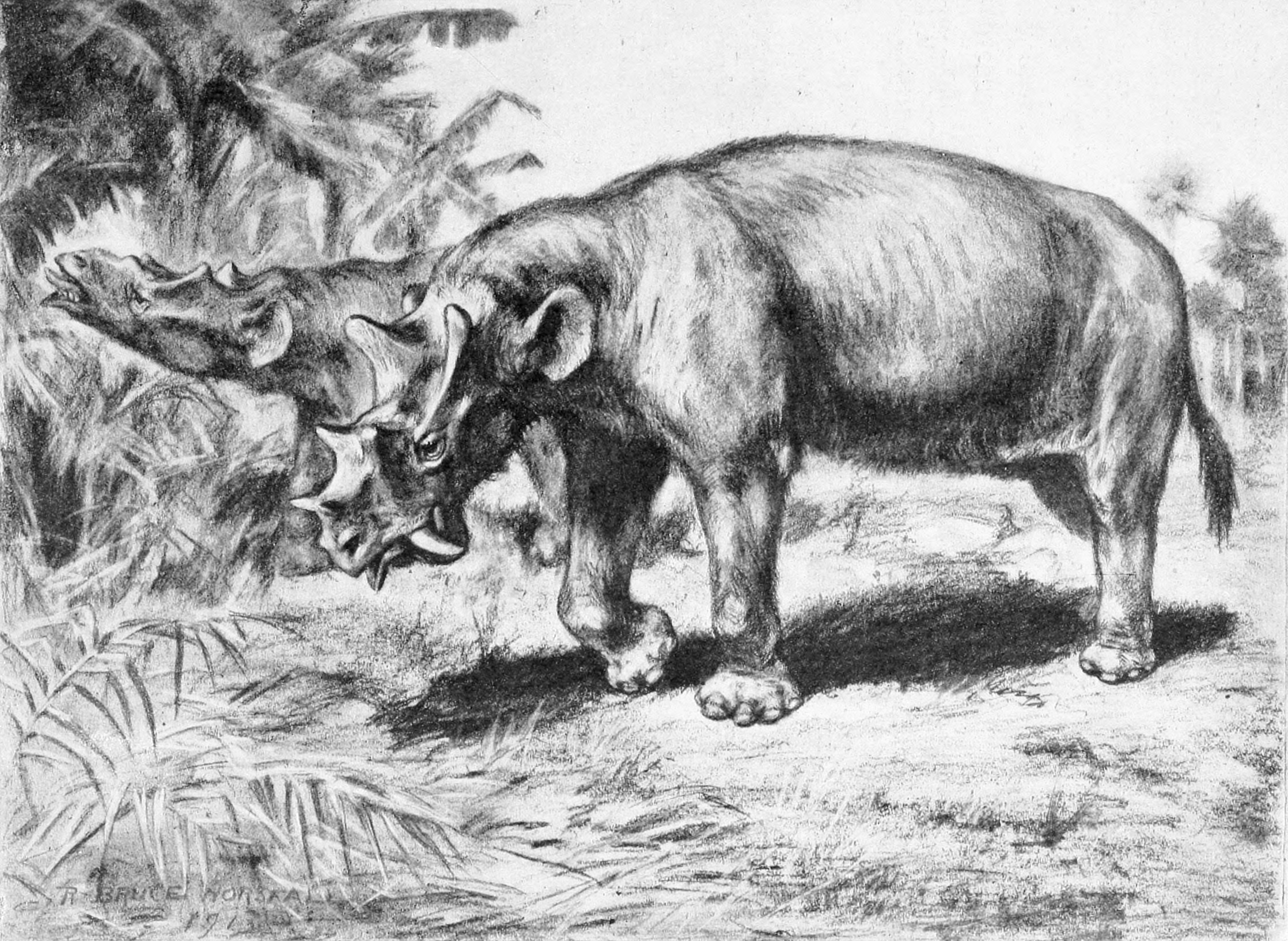 Female and male Uintatherium anceps.